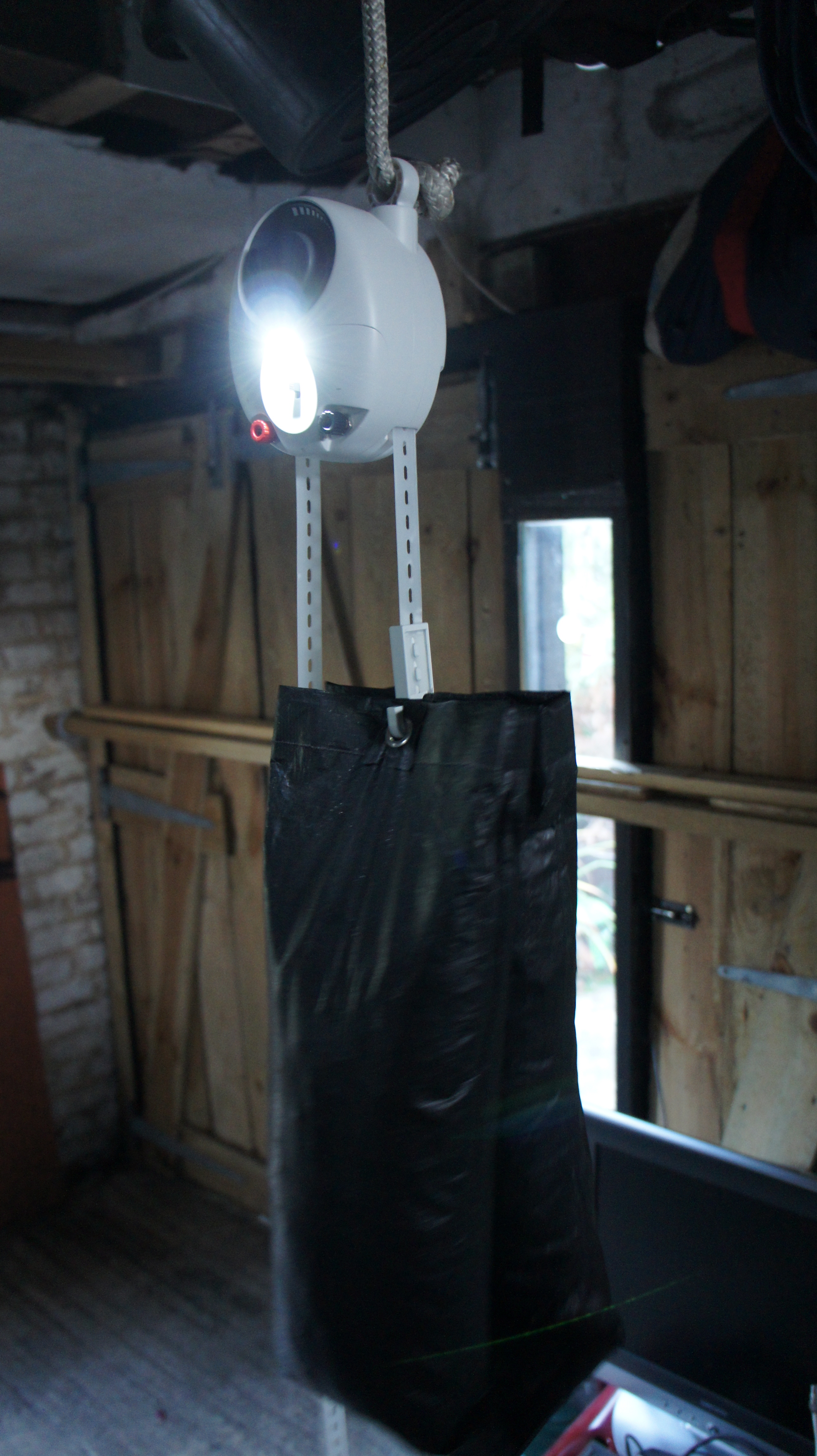 GravityLight